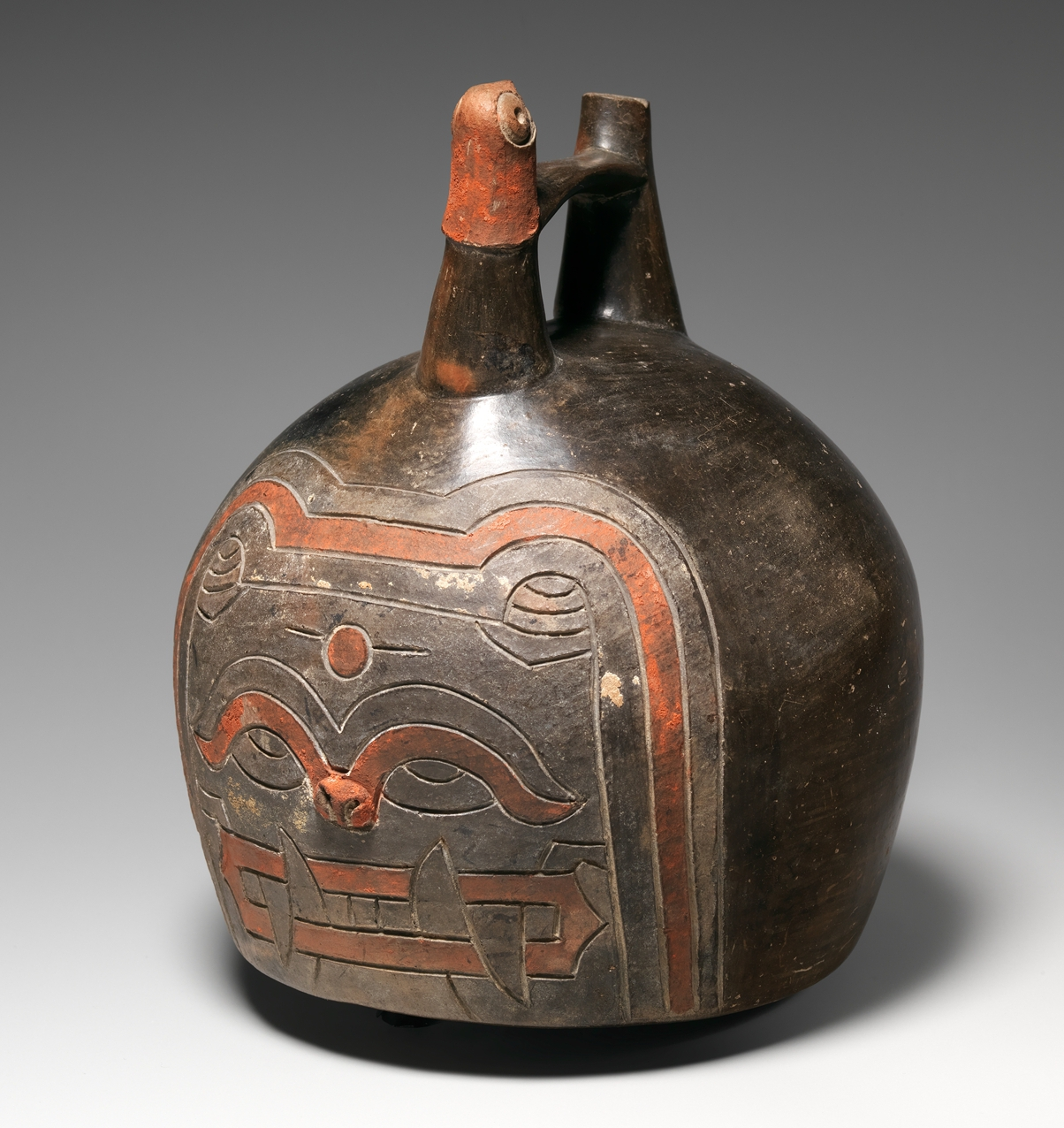 Paracas; Bottle; Ceramics-Containers